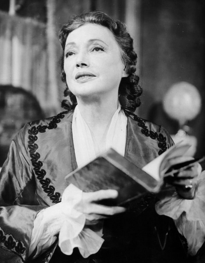 Photo of Katharine Cornell, who reprised her noted "Barretts of Wimpole Street" stage role for a 1956 television presentation of the play.